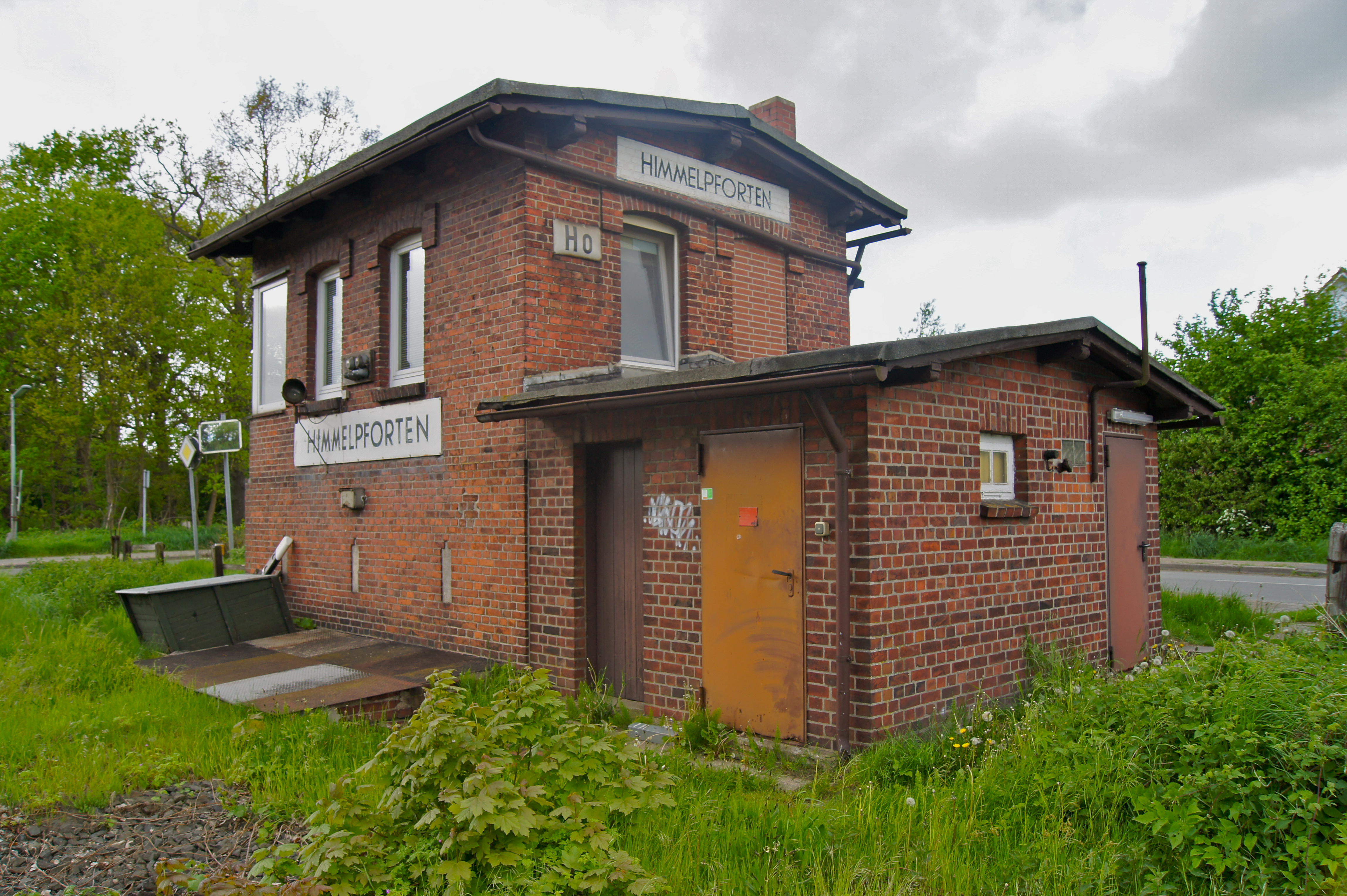 Heaven's doors, Germany: Watchman's house